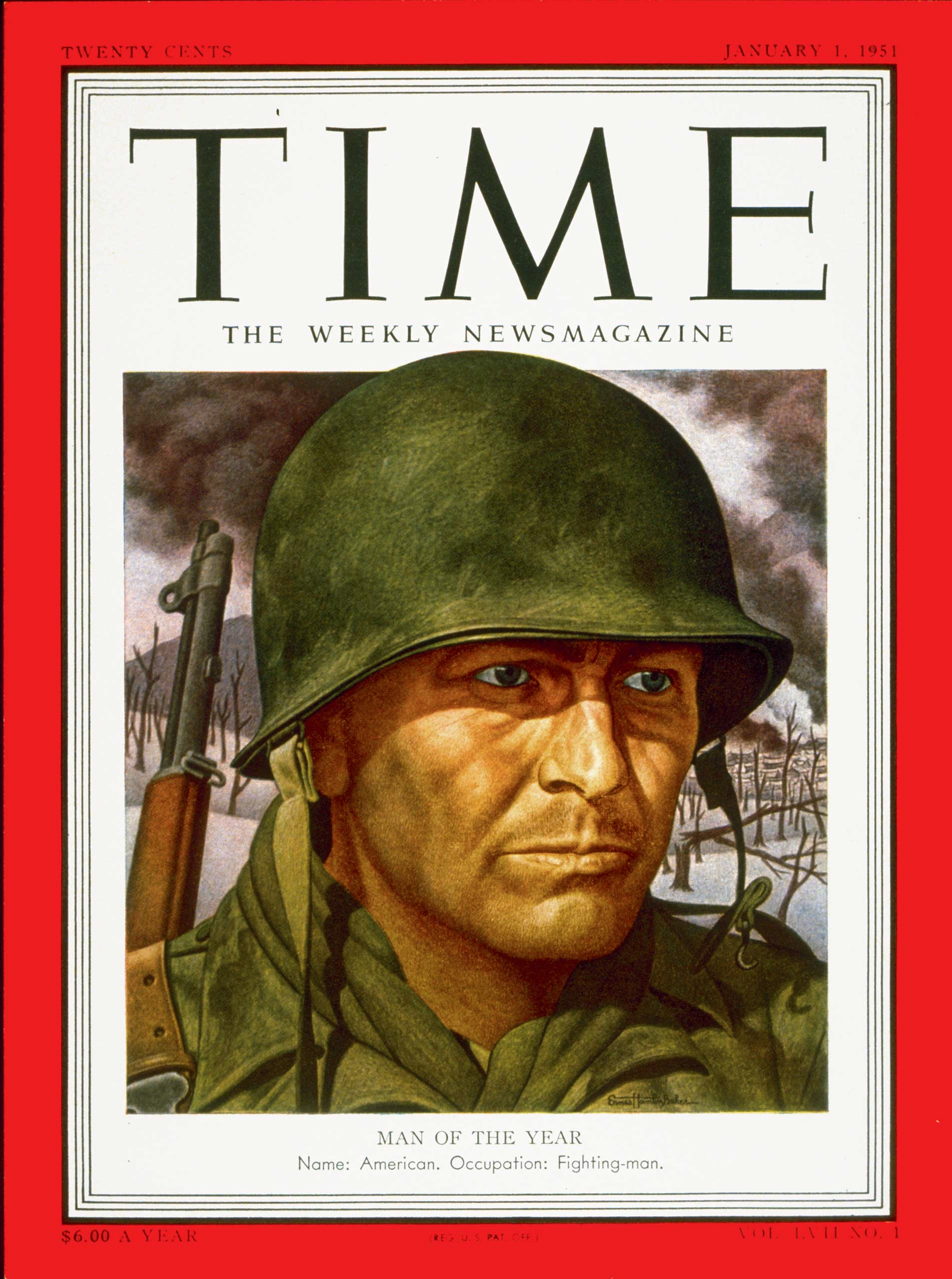 Time magazine, Volume 57 Issue 1. Front cover is an illustration of an American soldier, Man of the Year.